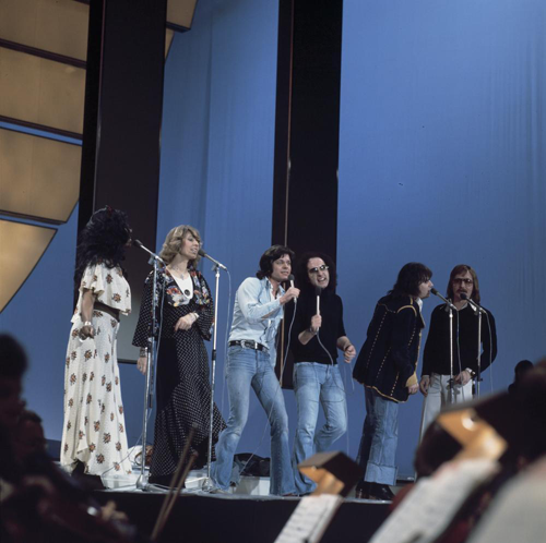 Les Humphries Singers at a rehearsal for the Eurovision Song Contest 1976.